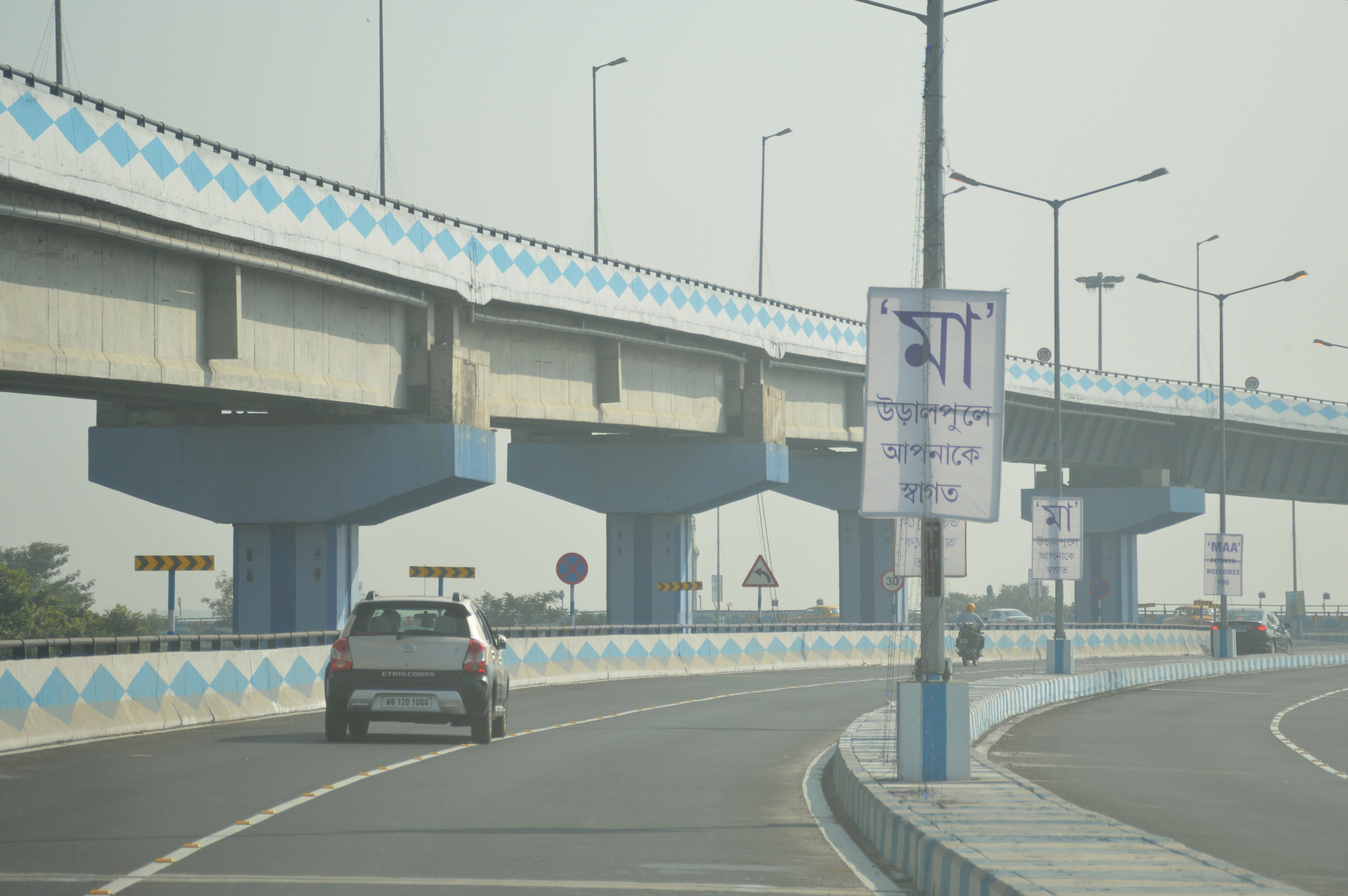 The Parama Island Flyover (officially Maa) is 4.5-kilometre-long flyover in Kolkata. It was opened on Thursday, 12 October 2015 at 12 Noon, by the WB Chief Minister Mamata Banerjee. It took twelve years to build.